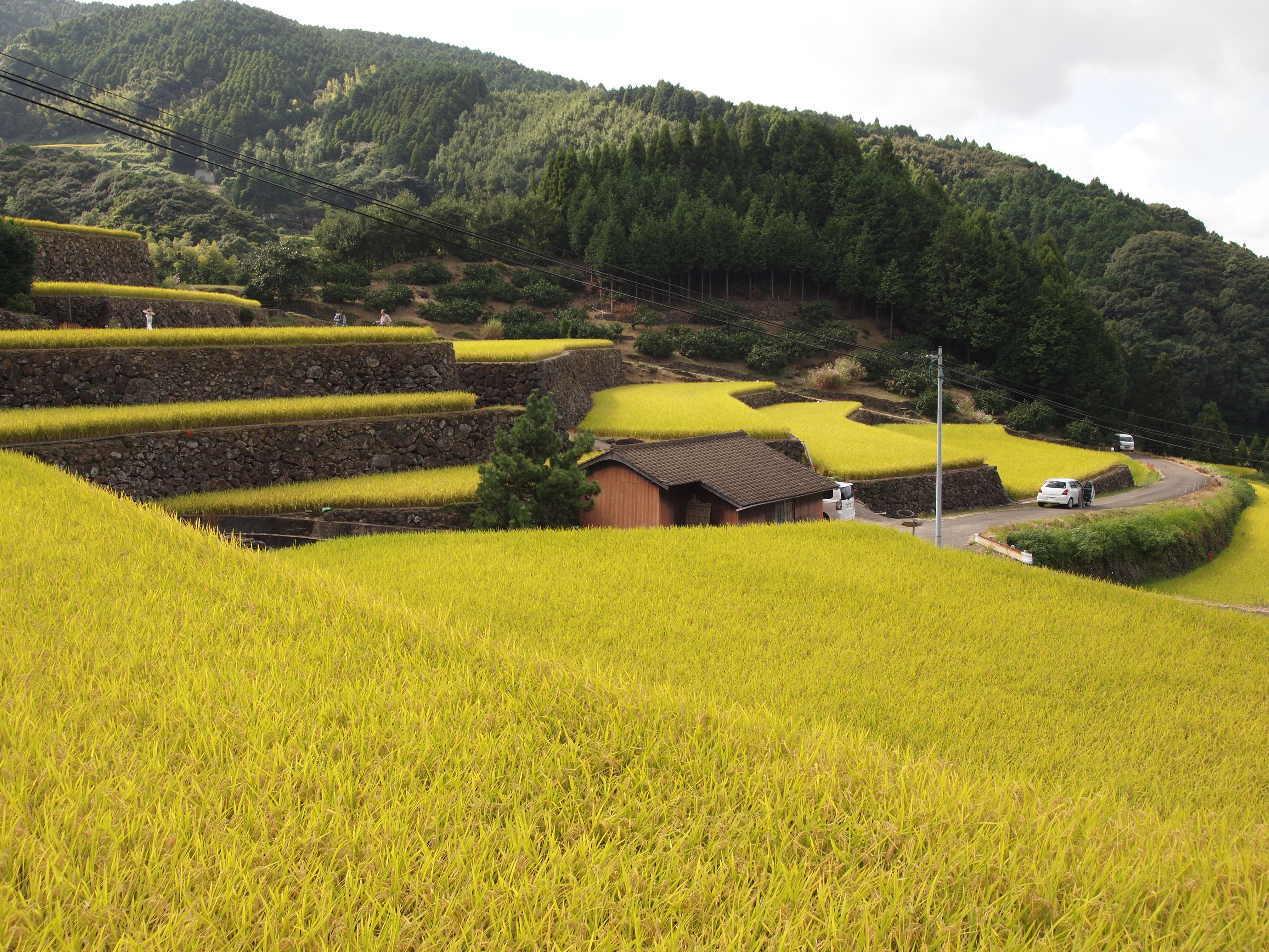 Rice terrace of Warabino(in Ouchi town, Karatsu city, Saga pref.).